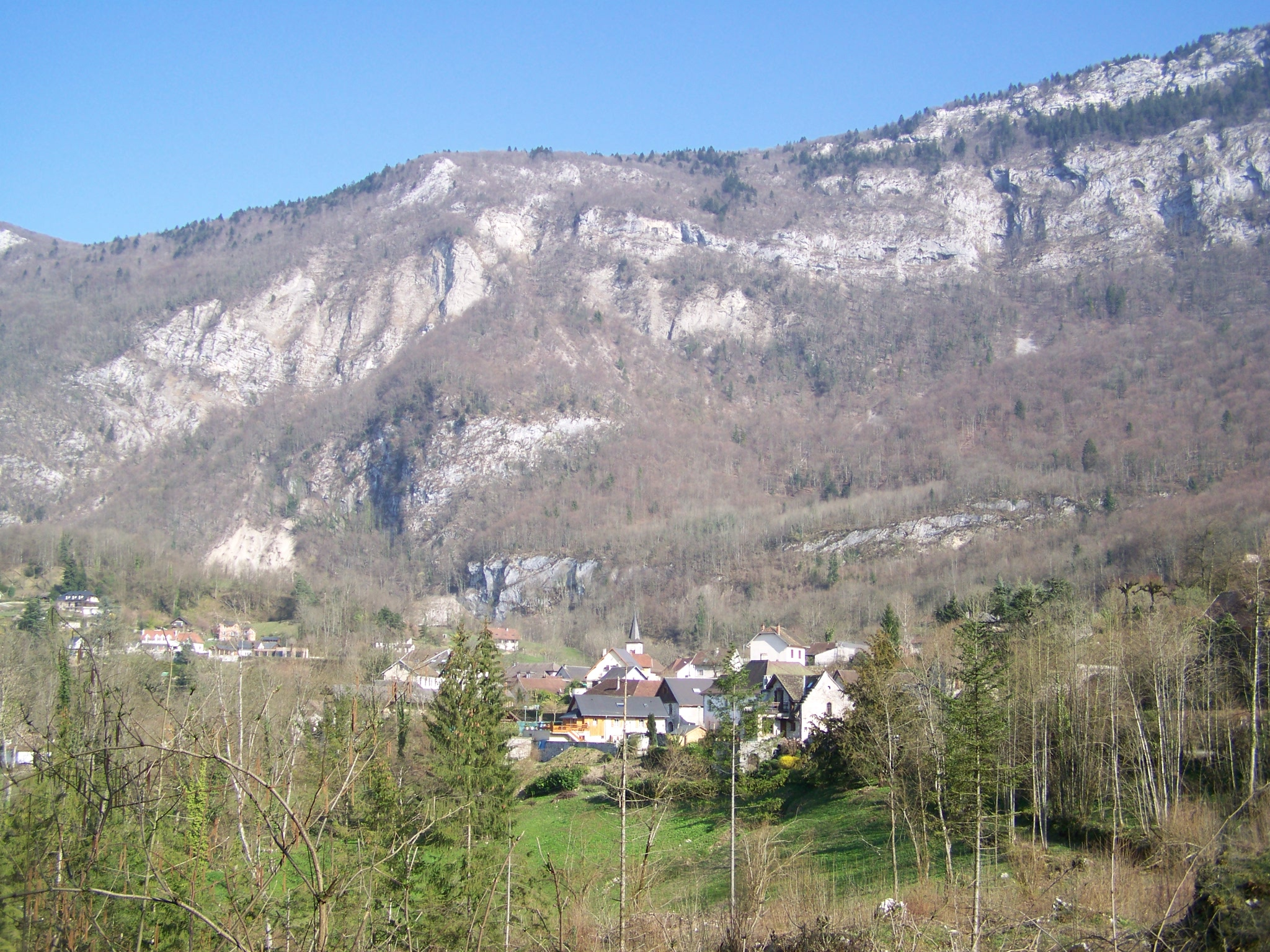 French village of Aiguebelette-le-Lac at the foot of Chaîne de l'Épine mountain, near Chambéry in Savoie.